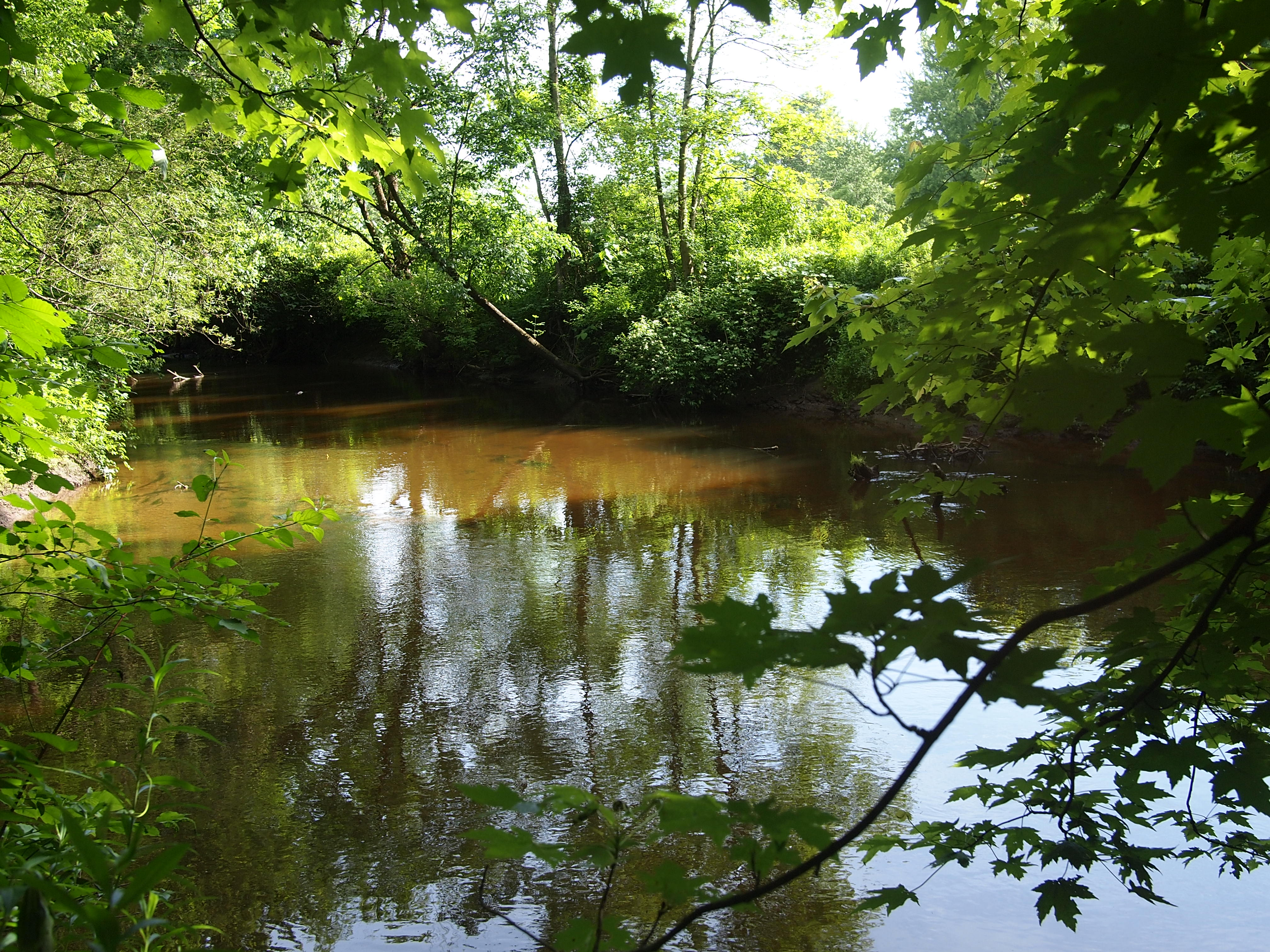 Looking upstream on Wood Creek, which was formerly part of the major water route from the Atlantic Seaboard to the Great Lakes of North America.